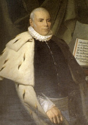 Portrait of Sebastião Correia de Sá, 1st Marquis of Terena (1766-1849)